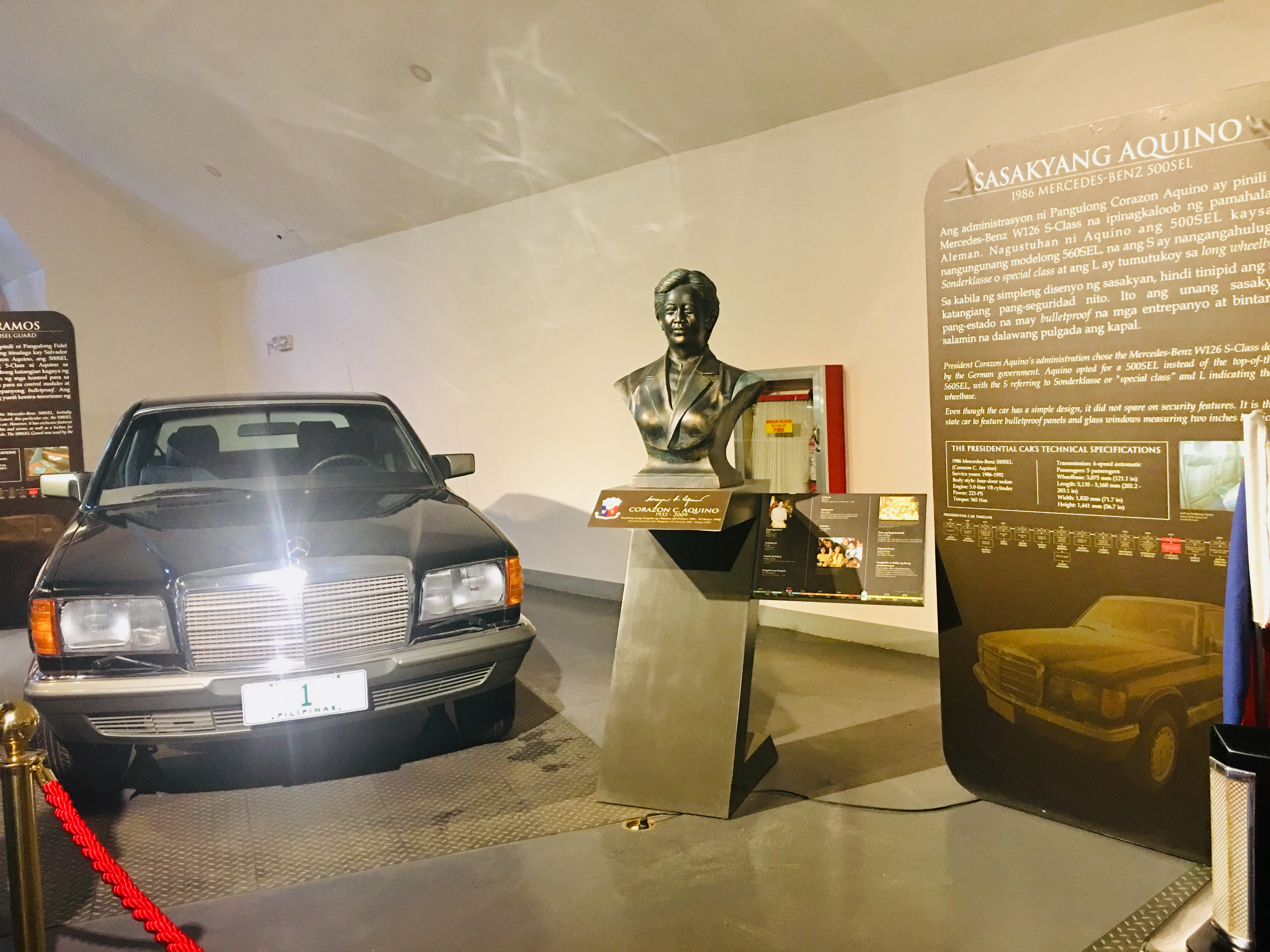 Presidential car of Corazon Aquino